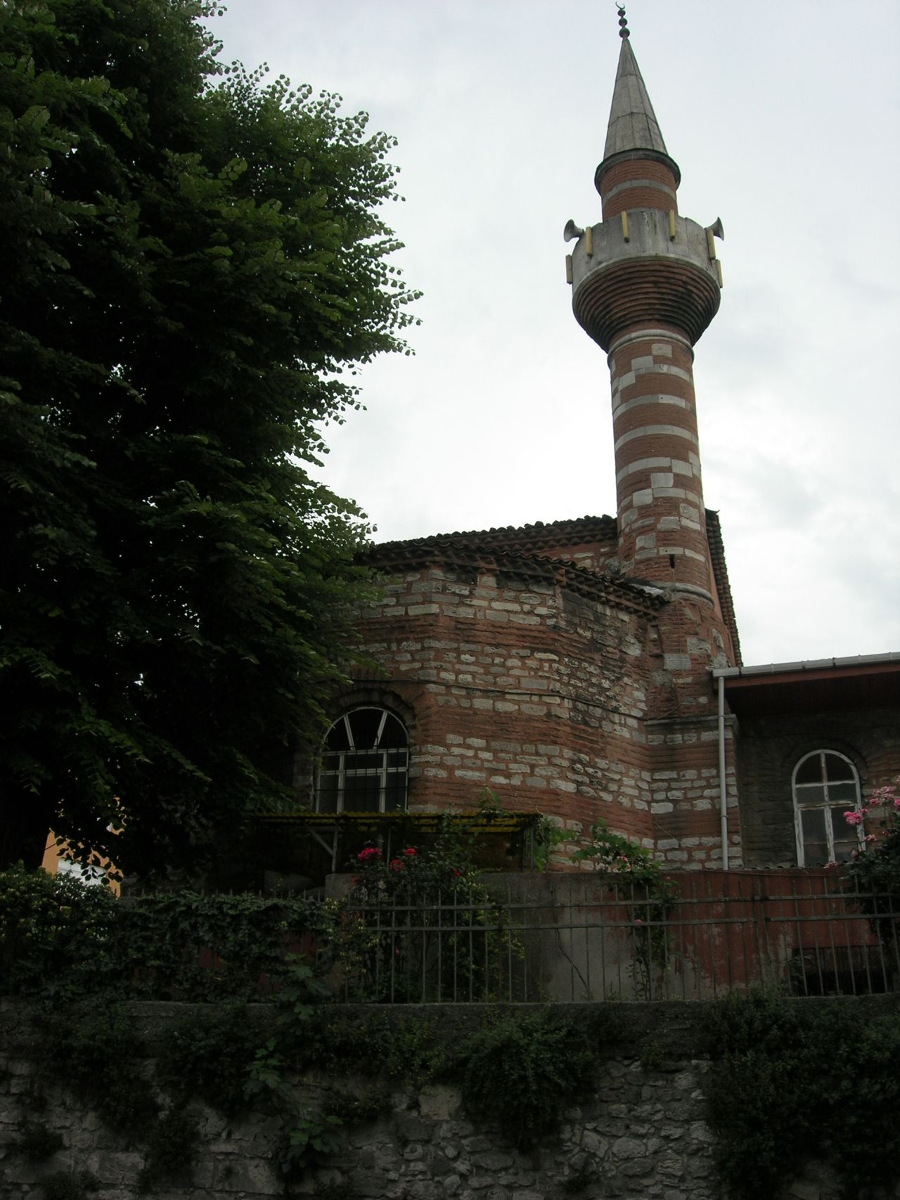 The apse of the former Church of the Saint Nicholas( today Kefeli Mescidi) in Istanbul viewed from N